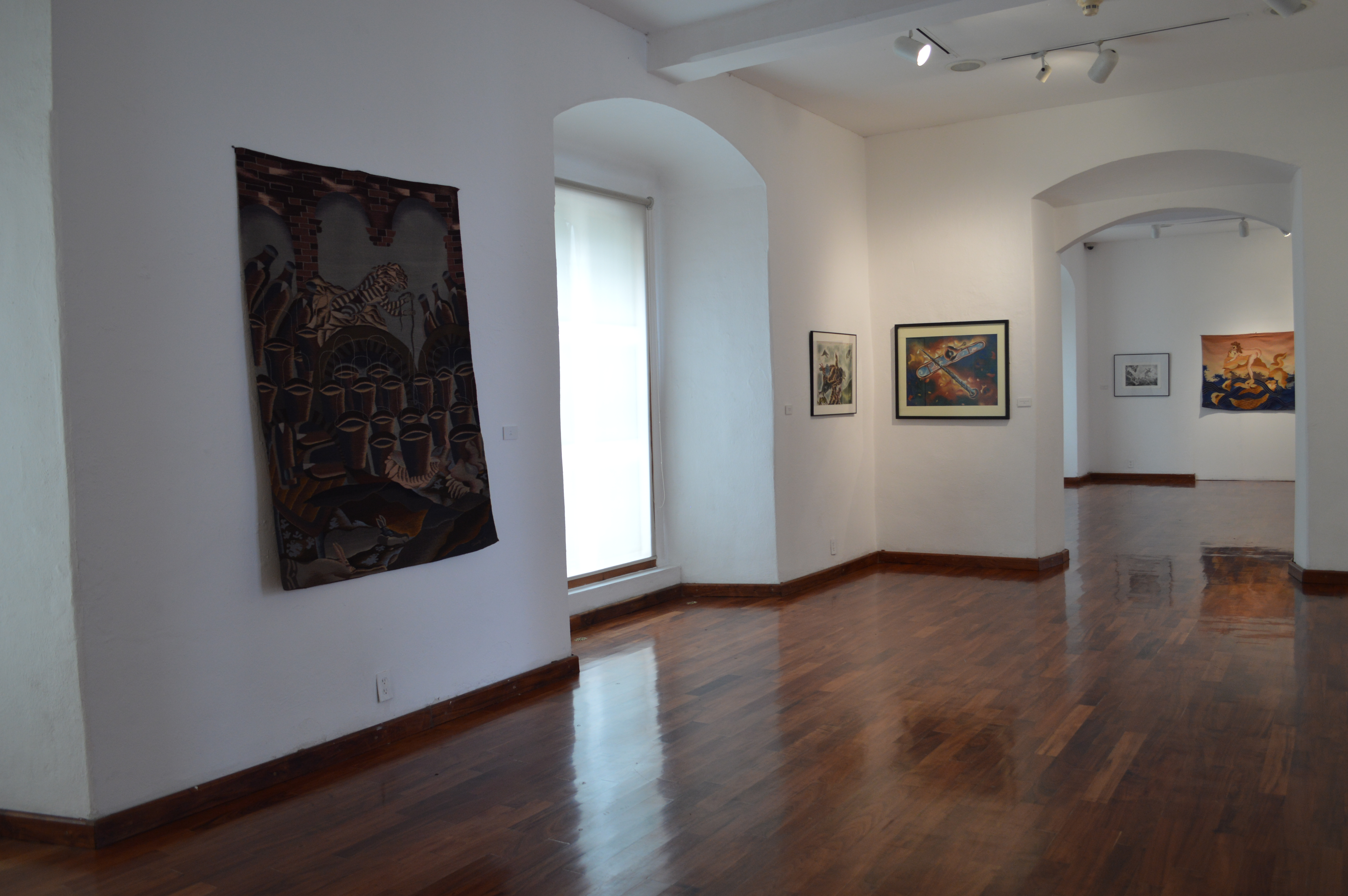 Display of rugs and paintings by Arnulfo Mendoza at the Mano Mágica exhibition at the Museo de los Pintores Oaxaqueños in the city of Oaxaca, Mexico